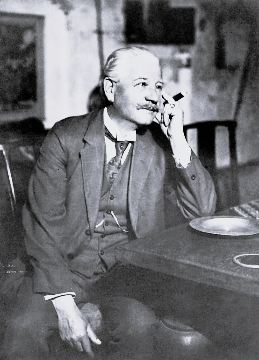 Otto Anthes (1867-1954), German author